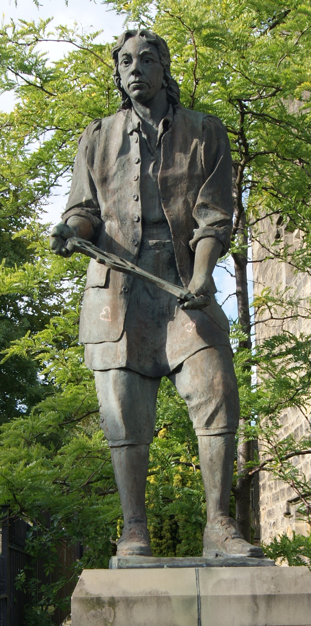 Thomas Chippendale statue, Clapgate, Otley, West Yorkshire. Taken on the afternoon of Monday the 28th of August 2017 (summer bank).